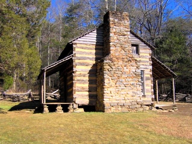 The John Oliver Cabin in Cades Cove, GSMNP, in East Tennessee. The cabin was constructed ca. 1822, and is located along the Cades Cove Loop Road.